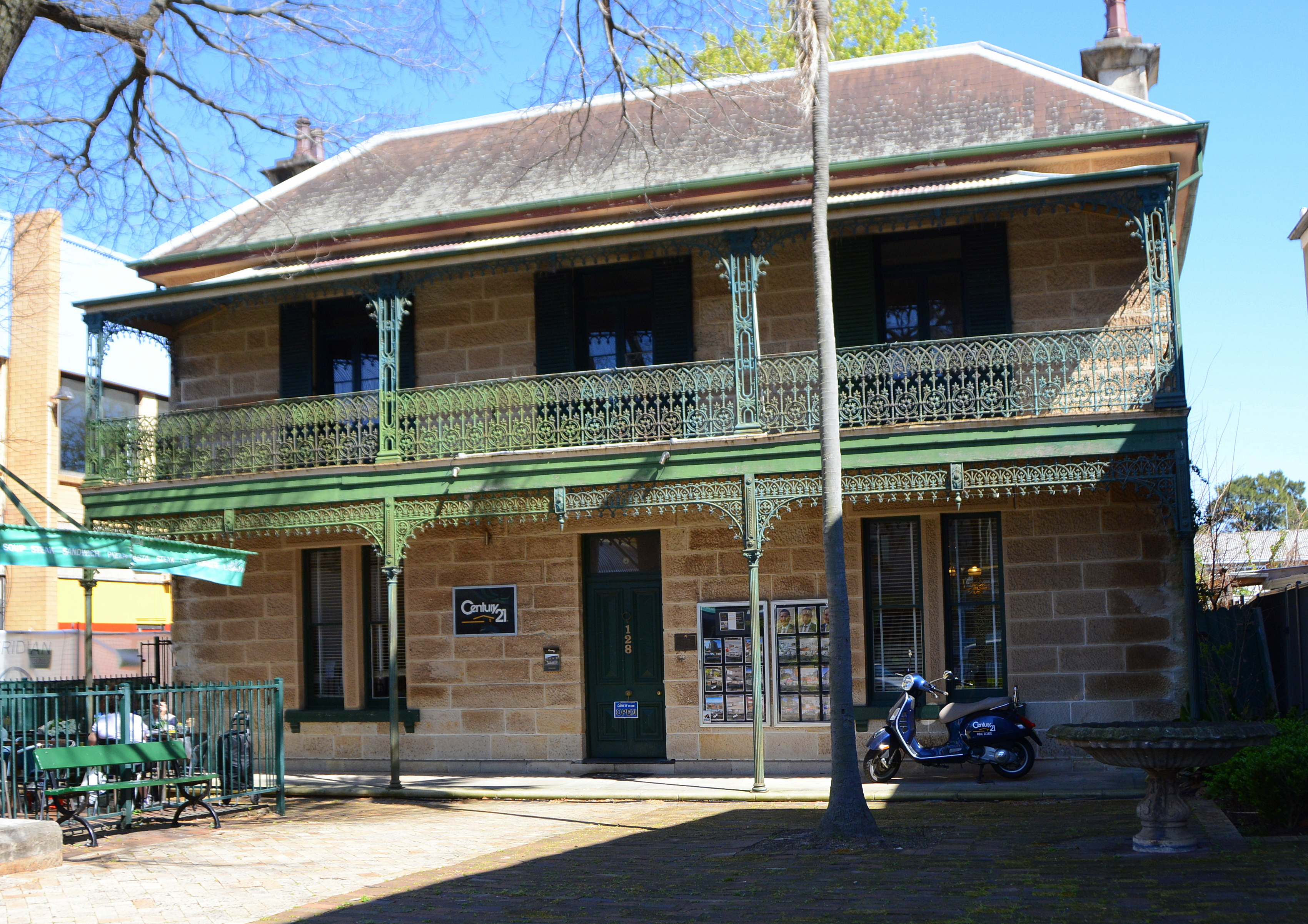 Sandgate, Belmore Rd, Randwick, Sydney